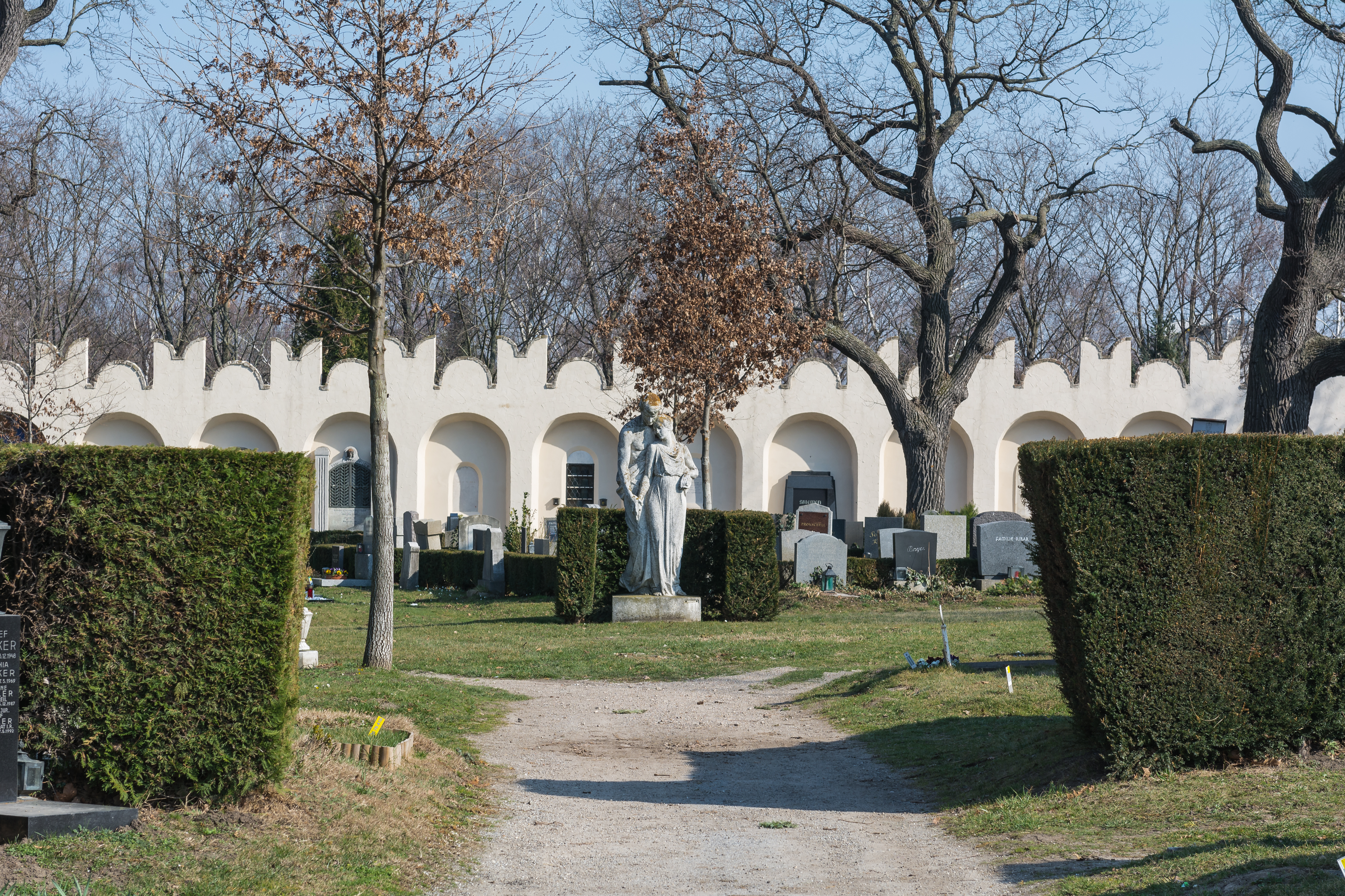 The crematory "Feuerhalle Simmering" in Vienna is surrounded by a large cemetery with urn burials. The wall in the back was formerly the enclosure of the garden of castle Neugebäude.